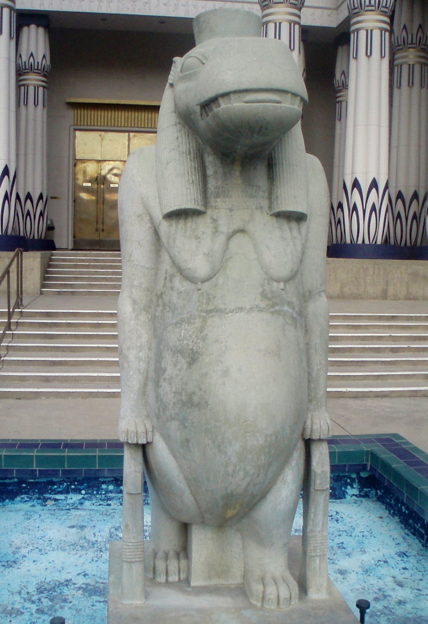 Statue of Tawaret by the entrance of the Rosicrucian Egyptian Museum.